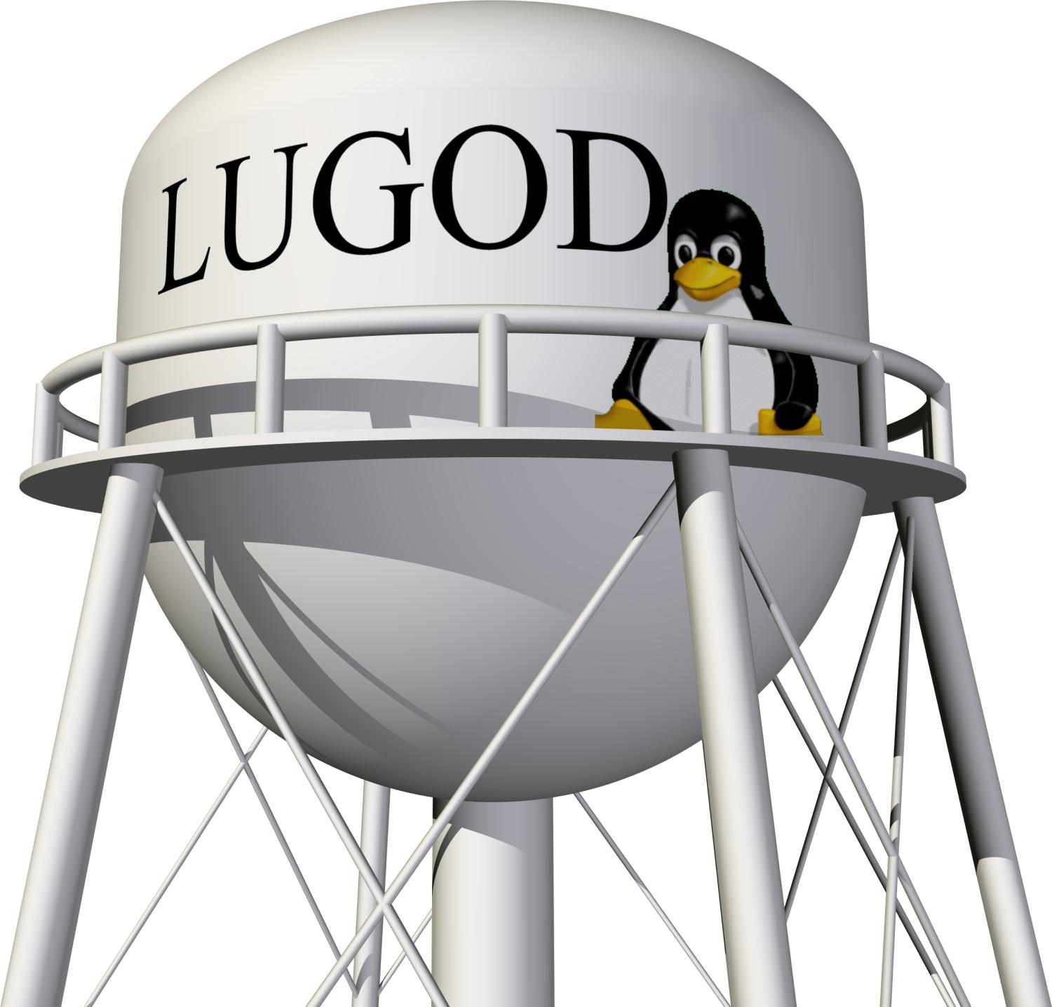 The Linux Users Group of Davis watertower logo, based on the towers with the University of California logo seen in Davis and Tux the Linux mascot. Created by Bill Kendrick using POV-Ray.